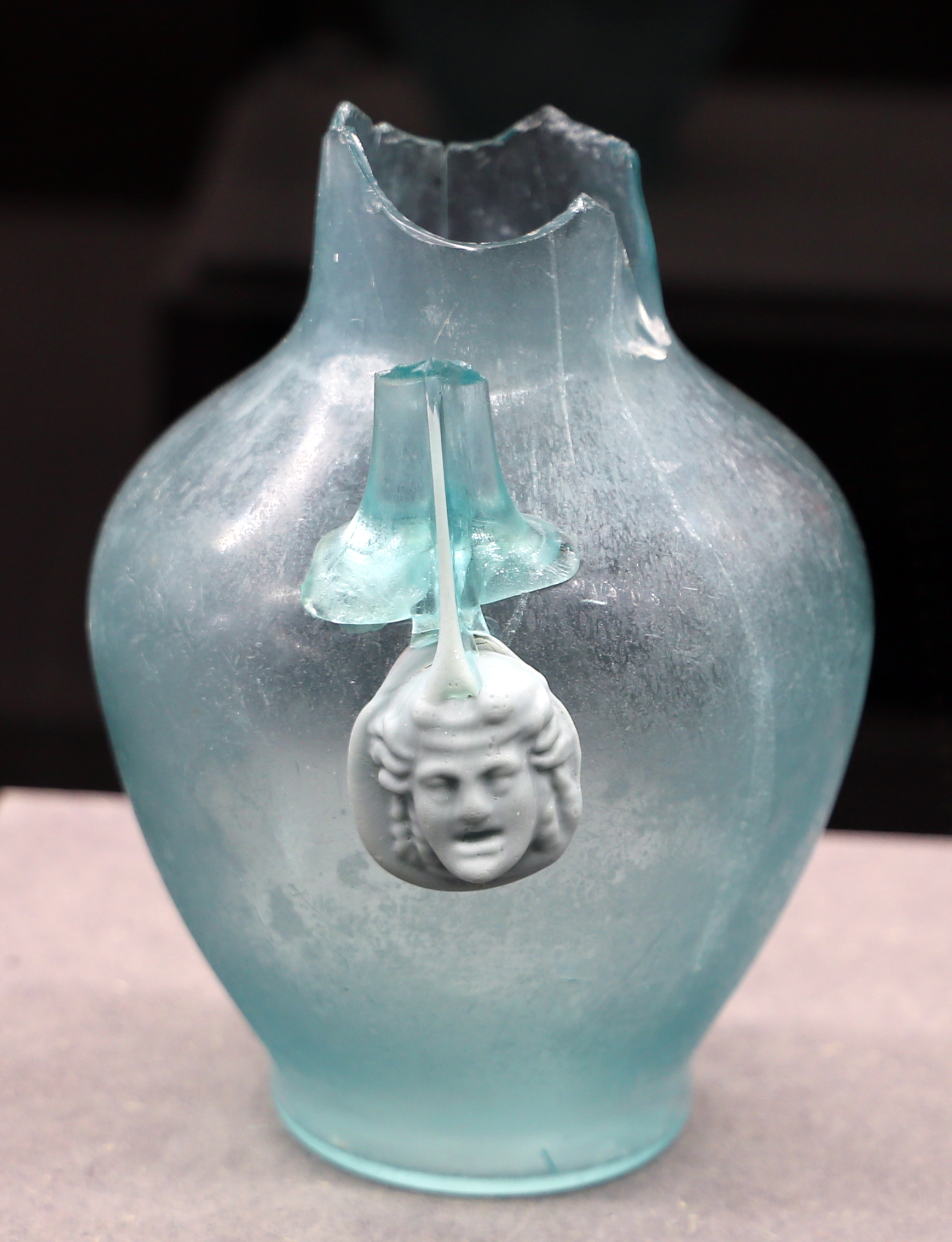 Pretiosa vitrea